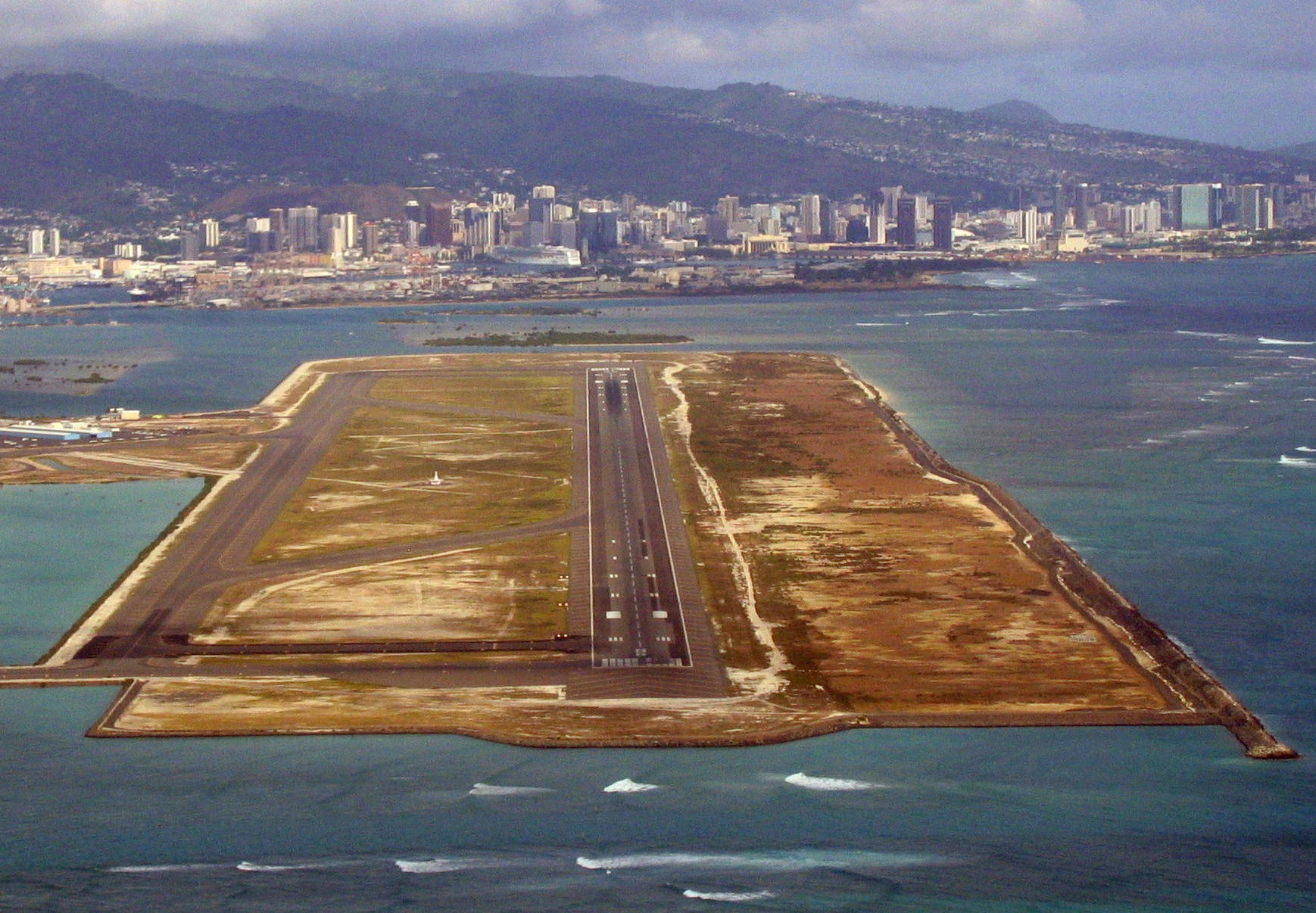 Honolulu International Airport has four major runways. The principal runway designated 8R/26L, also known as the Reef Runway, is the world's first major runway constructed entirely offshore. Completed in 1977, the Reef Runway is a designated alternate landing site for the National Aeronautics and Space Administration space shuttle program in association with Hickam Air Force Base, which shares Honolulu International Airport's airfield operations. (Courtesy of )